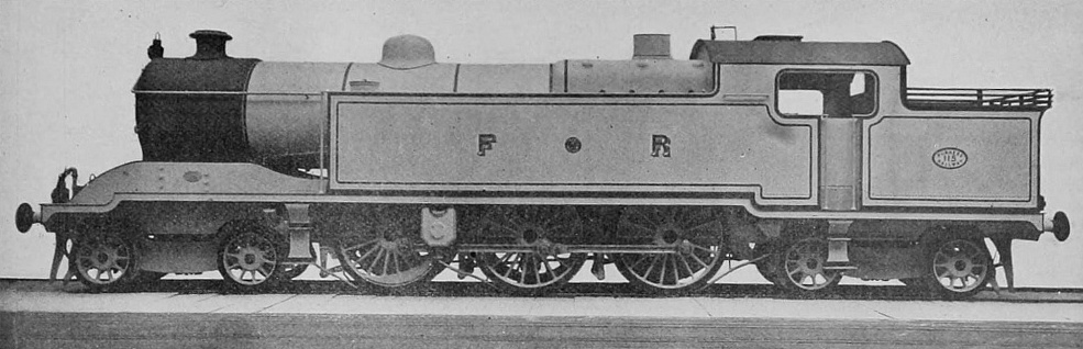 an image of the Furness Railway 115 class steam locomotive